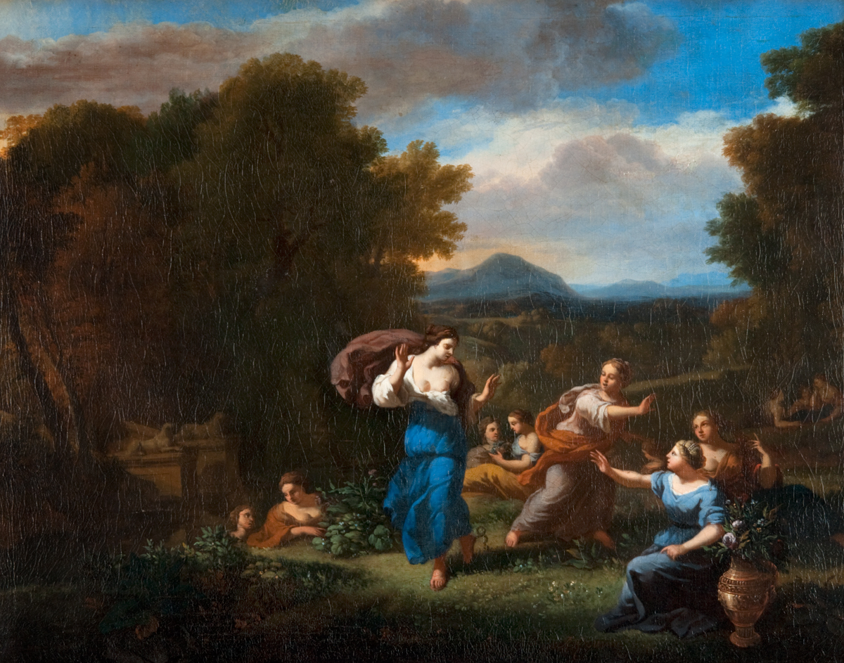 Landscape with the Death of Eurydice oil on canvas 42.2 x 55.2 cm cm (estimate) signed b.c.: A. Hennin